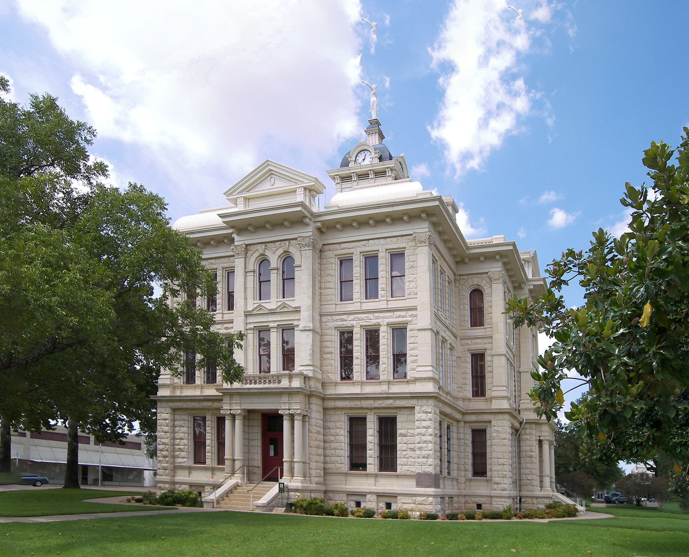 The Milam County Courthouse located in Cameron, Texas, United States.The Courthouse was listed on the National Register of Historic Places on December 20, 1977.